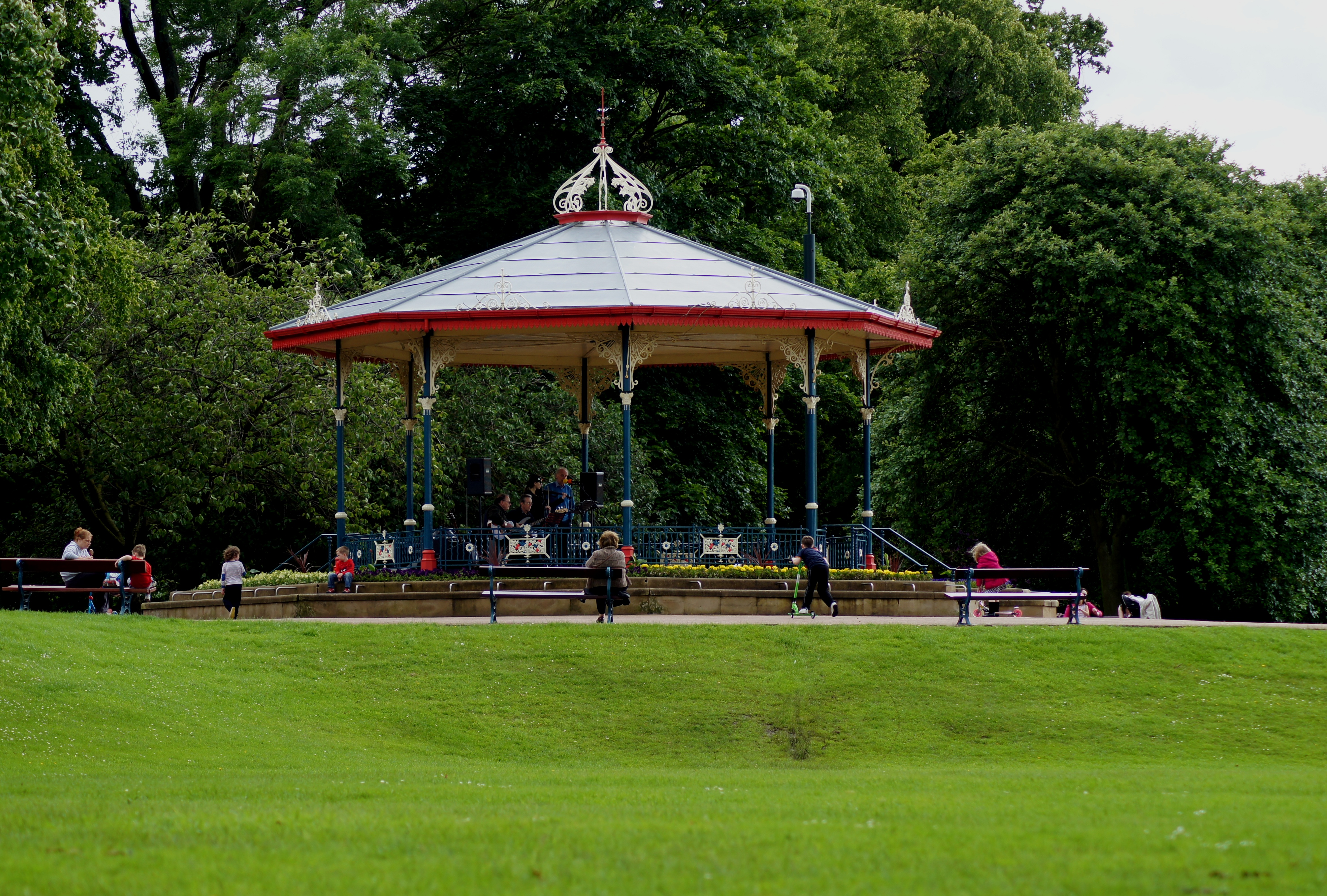 Endeavour Cielidh Band performing at Ropner Park, Stockton on Tees - 24th June 2012